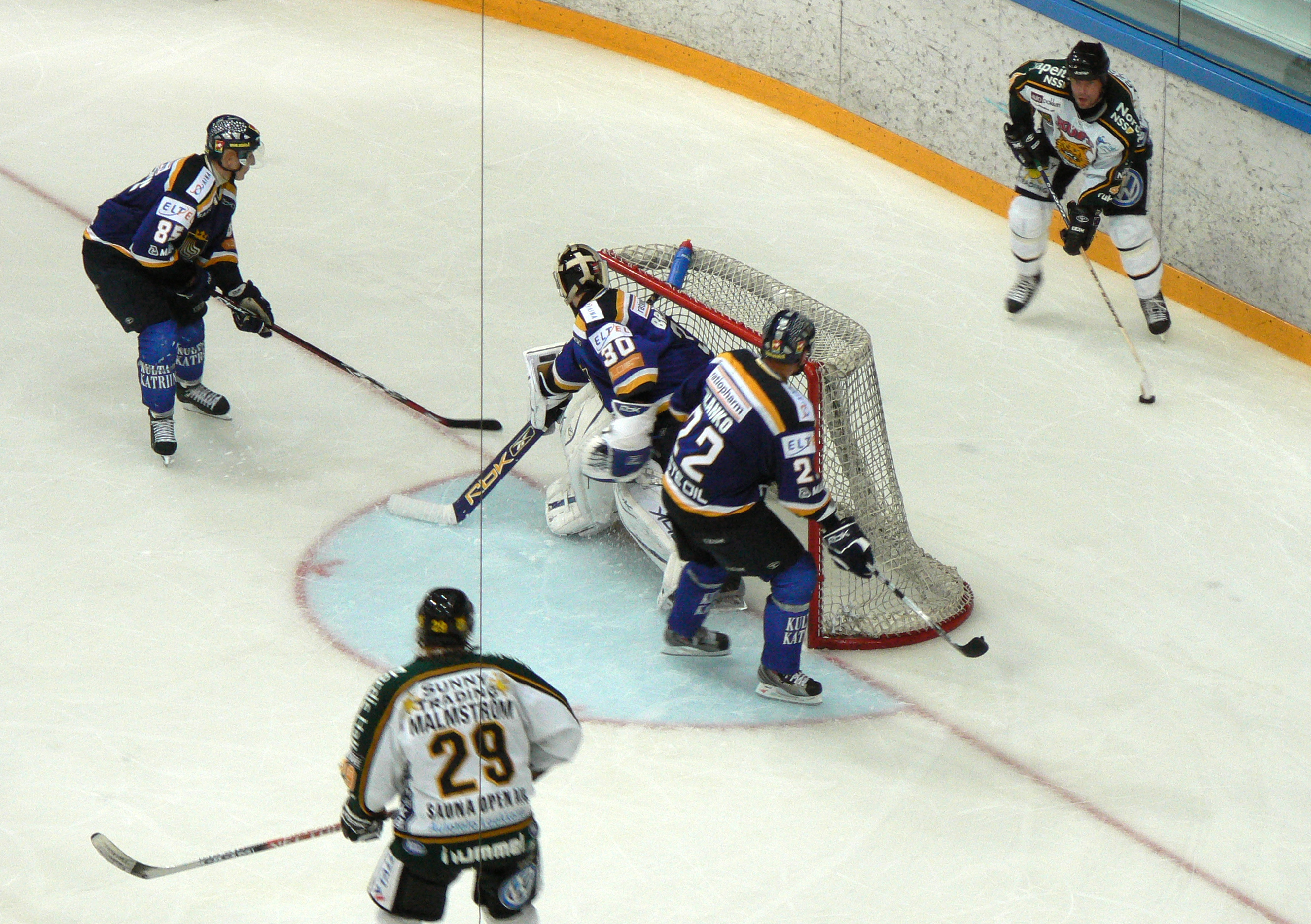 Raimo Helminen of Ilves Tampere waiting for the opportunity to send a perfect pass to Henrik Malmström on power play against the Espoo Blues, with Toni Kähkönen and Rami Alanko doing what they can to help Bernd Brückler at the goal. Taken at the 2007 Tampere Cup.